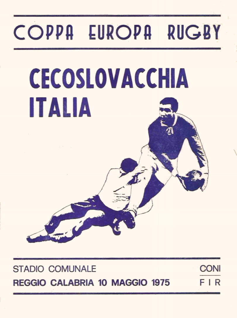 Front page of the rugby union match program between the national teams of Czechoslovakia and Italy at Reggio Calabria for the European Cup 1974-75